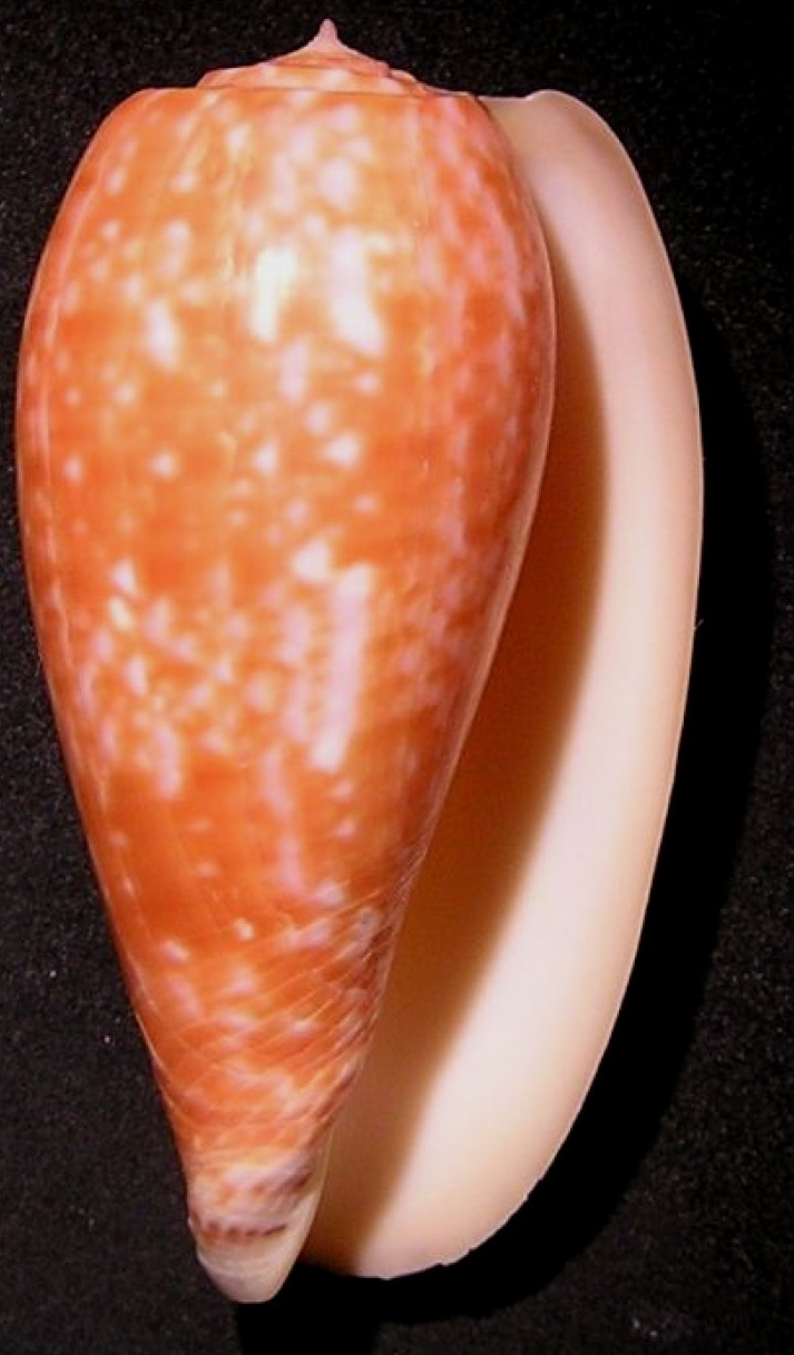 Underside view of the Indo-Pacific seashell Conus bullatus Linnaeus, 1758 - Bubble Cone / Origin of image: Own collection. Philippines. Cebu. Chango Island.